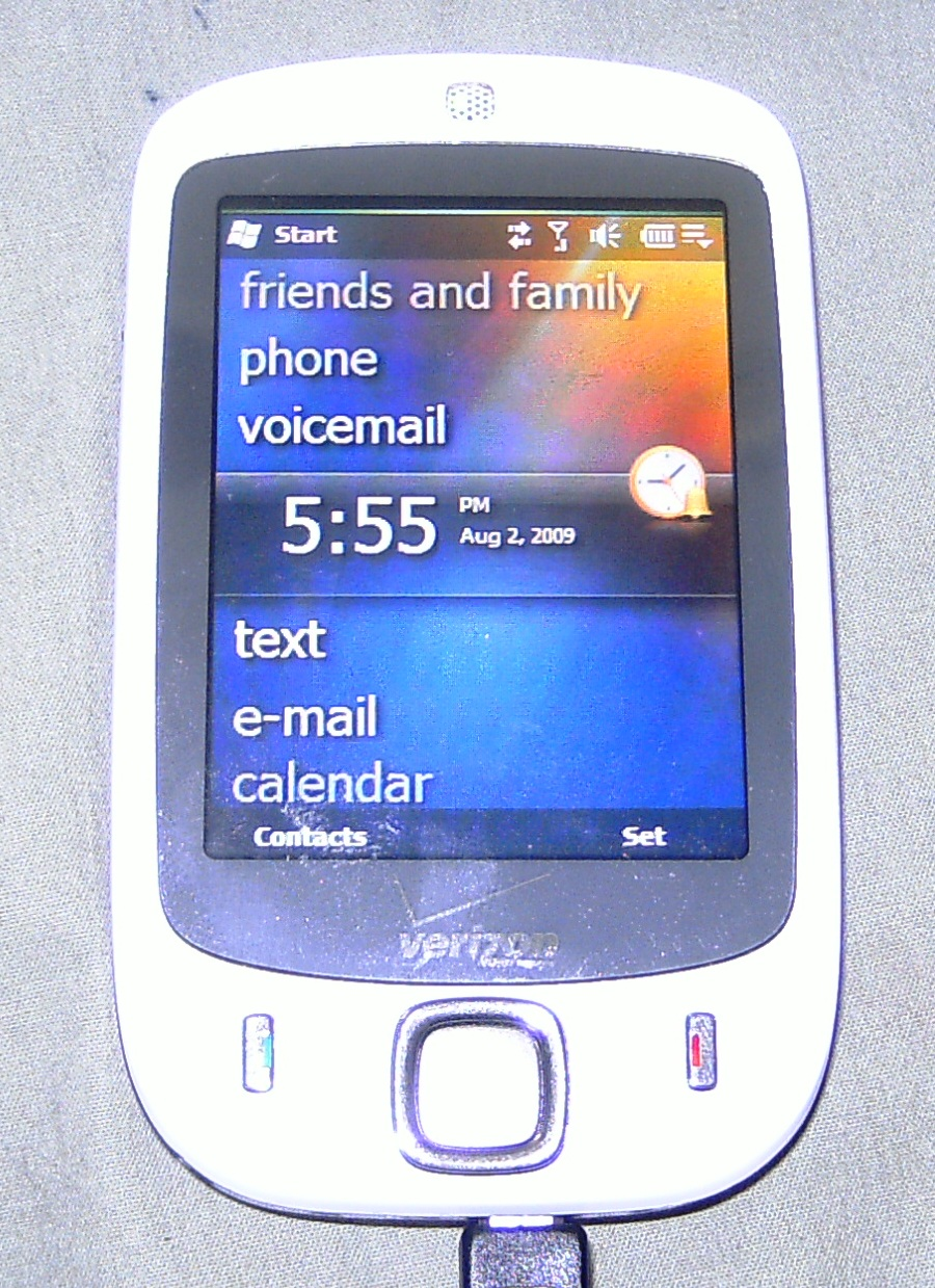 A picture of a Verizon XV6900 phone running Windows Mobile 6.5